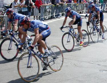 San Francisco Grand Prix 2002. With the tour de france starting today, made me think back to our visit to san fran for the Grand Prix race in 2002. Lance and team raced and it was our first time to a race of this size. It was a kick ass trip and we ran all over the course to see as much of the race as we could.